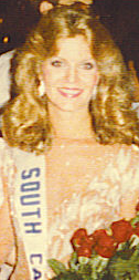 Headshot of Allison Grisso, Miss South Carolina USA 1983 and second runner-up at the Miss USA 1983 pageant